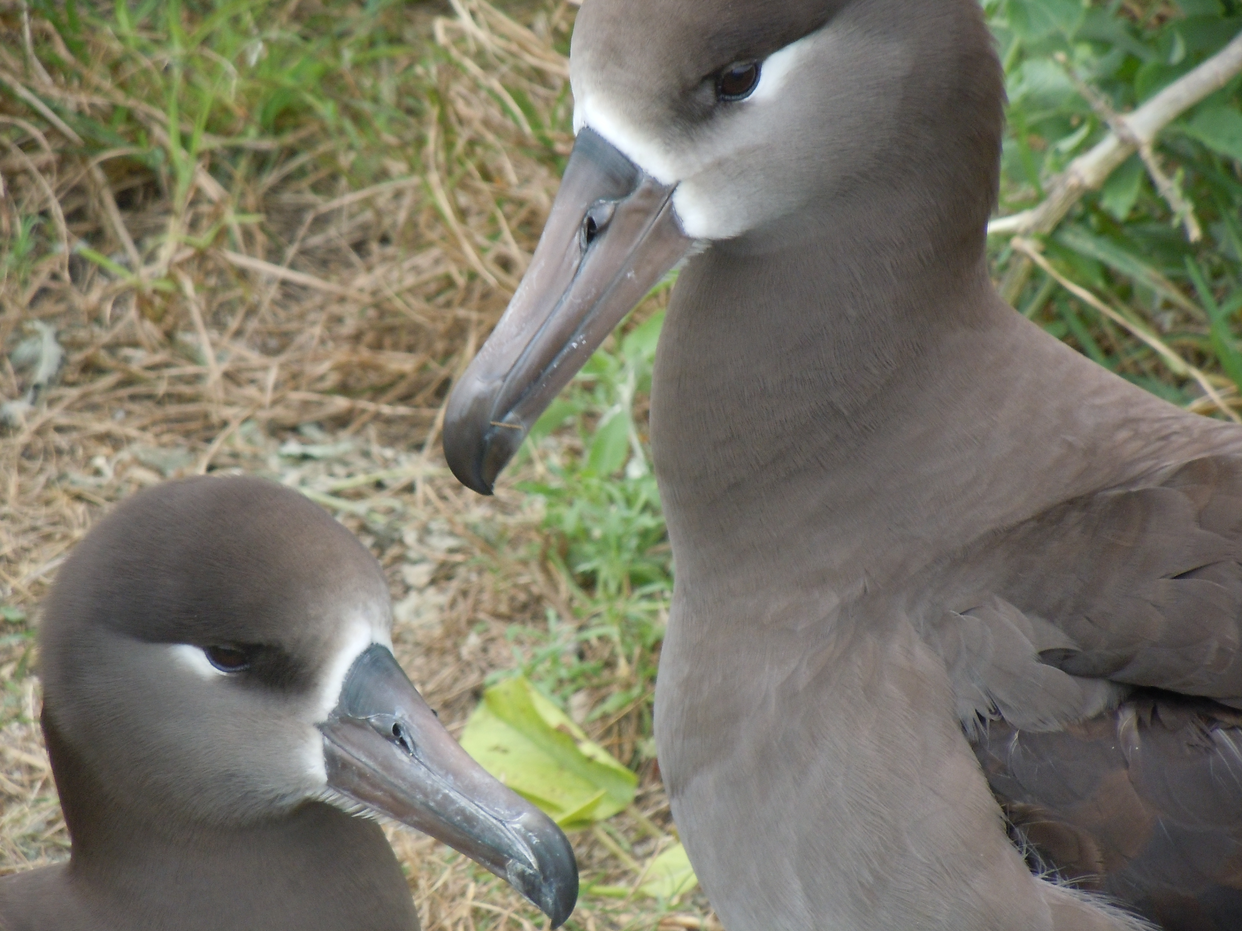 Midway Atoll National Wildlife Refuge March 2012 Photo: Noah Kahn/USFWS